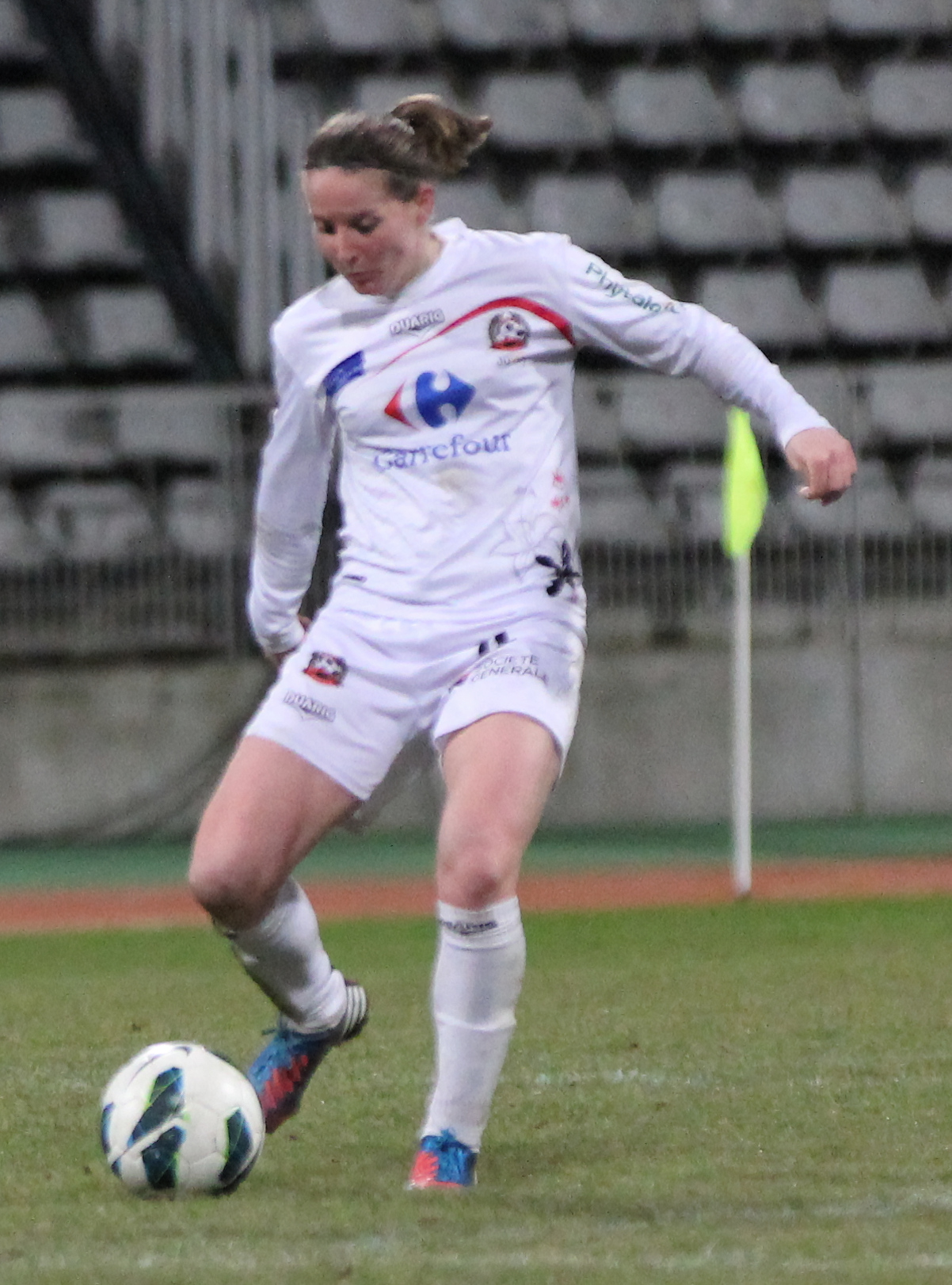 PSG-Juvisy, december 9th, 2012.